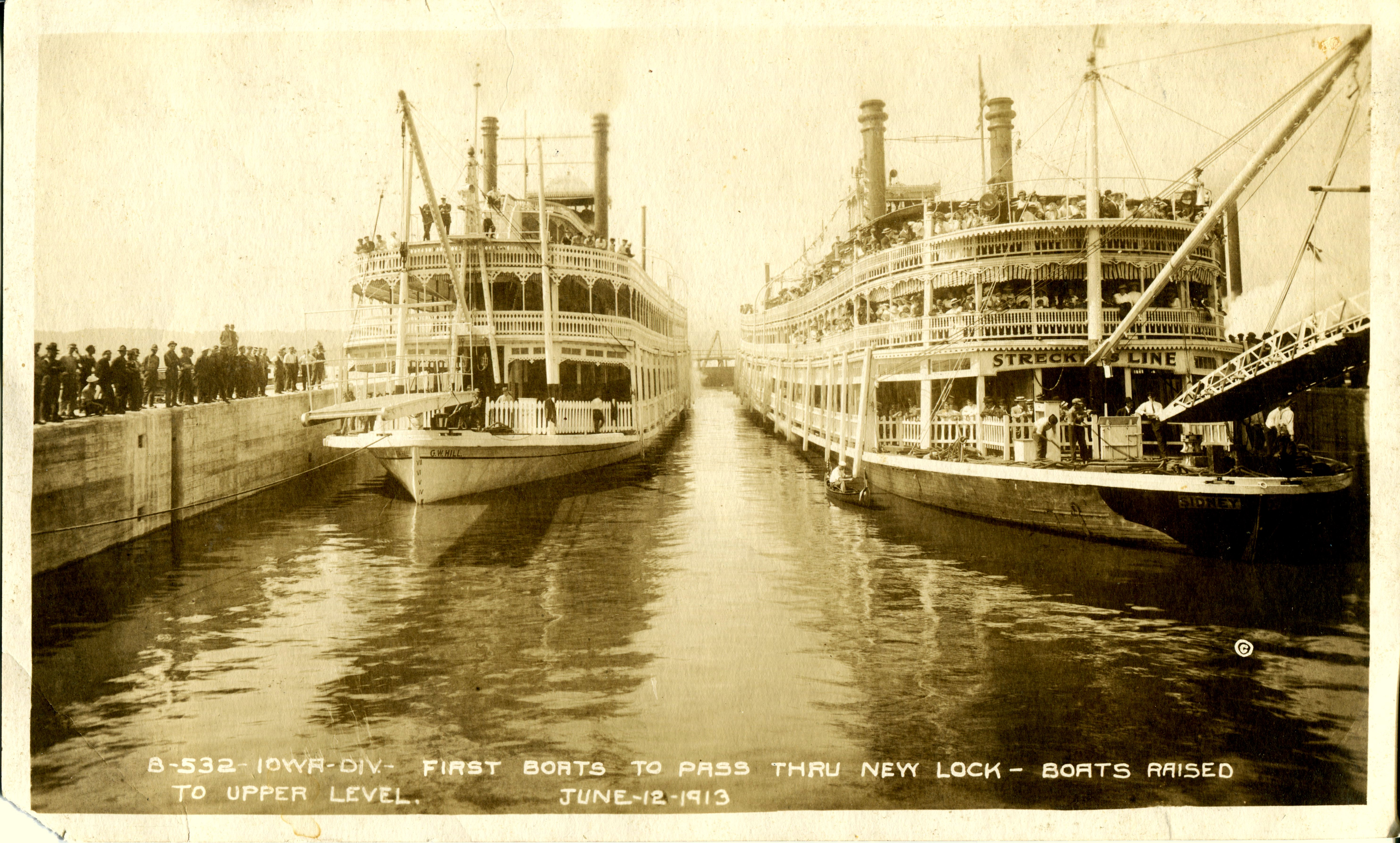 The Sidney of the Streckfus Line, with Captain Streckfus and 405 passengers on board, and the tow boat G. W. Hill